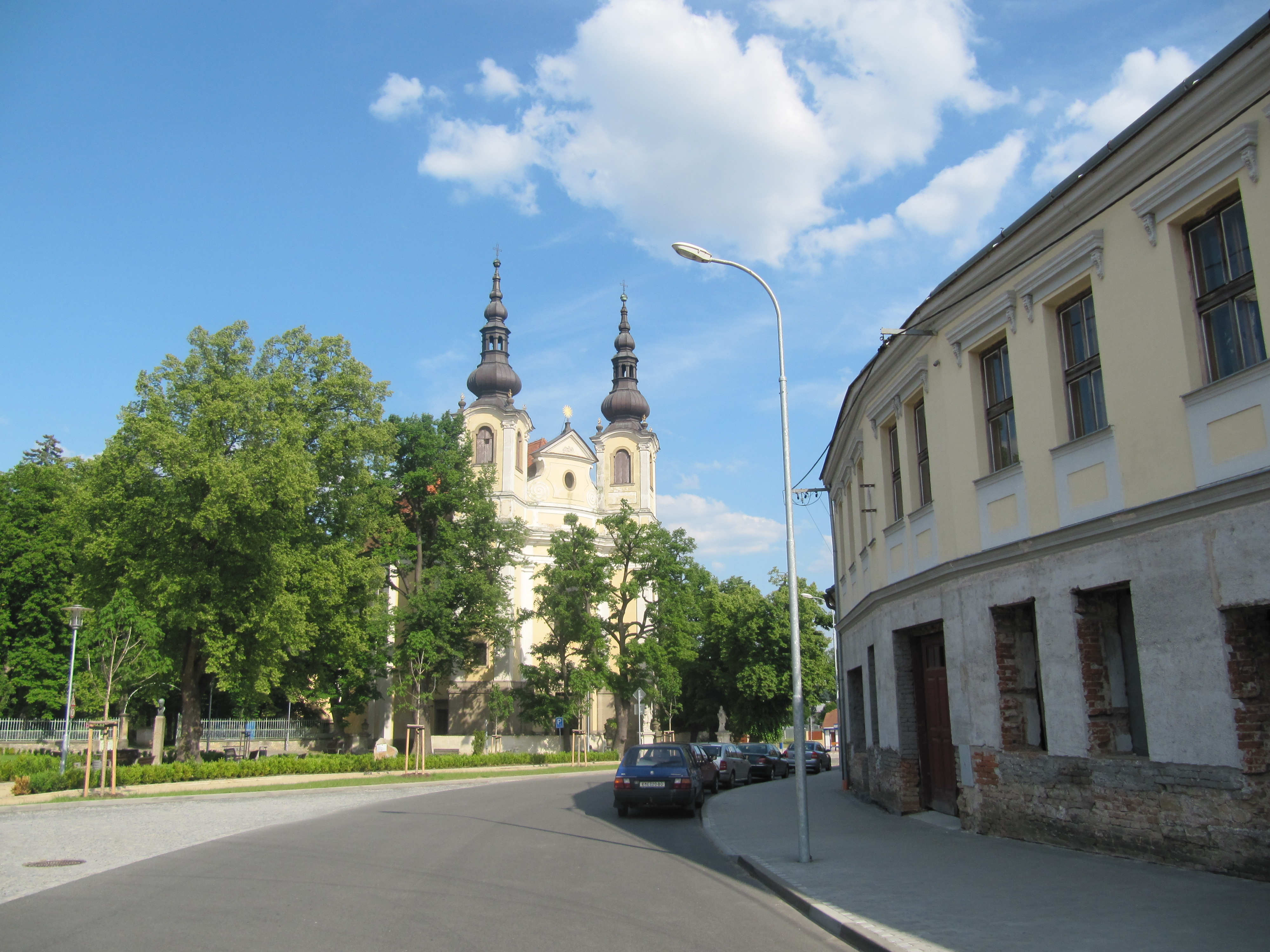 Kvasice in Kroměříž District, Czech Republic. Church.